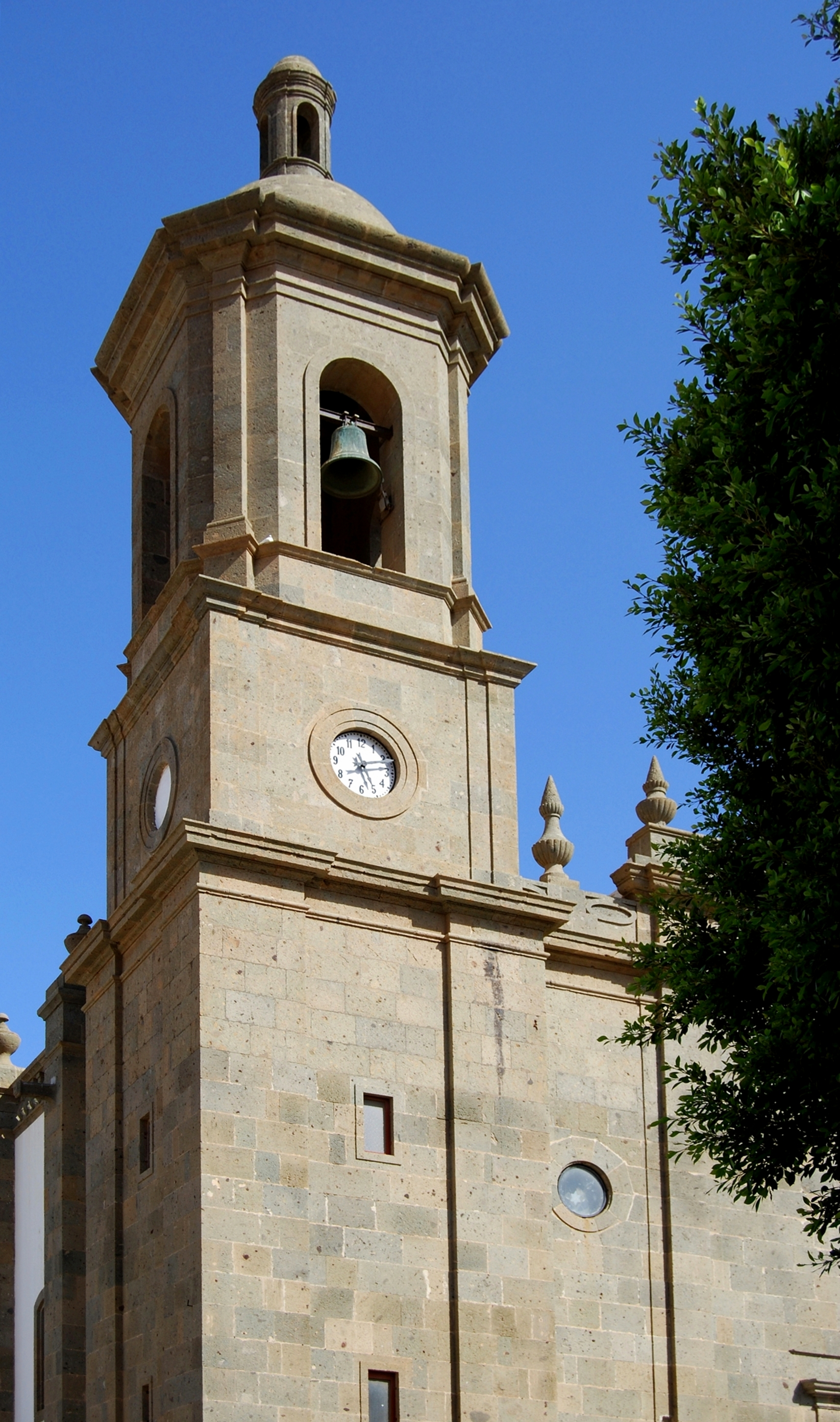 Tower of the church of Agüimes, Gran Canaria.